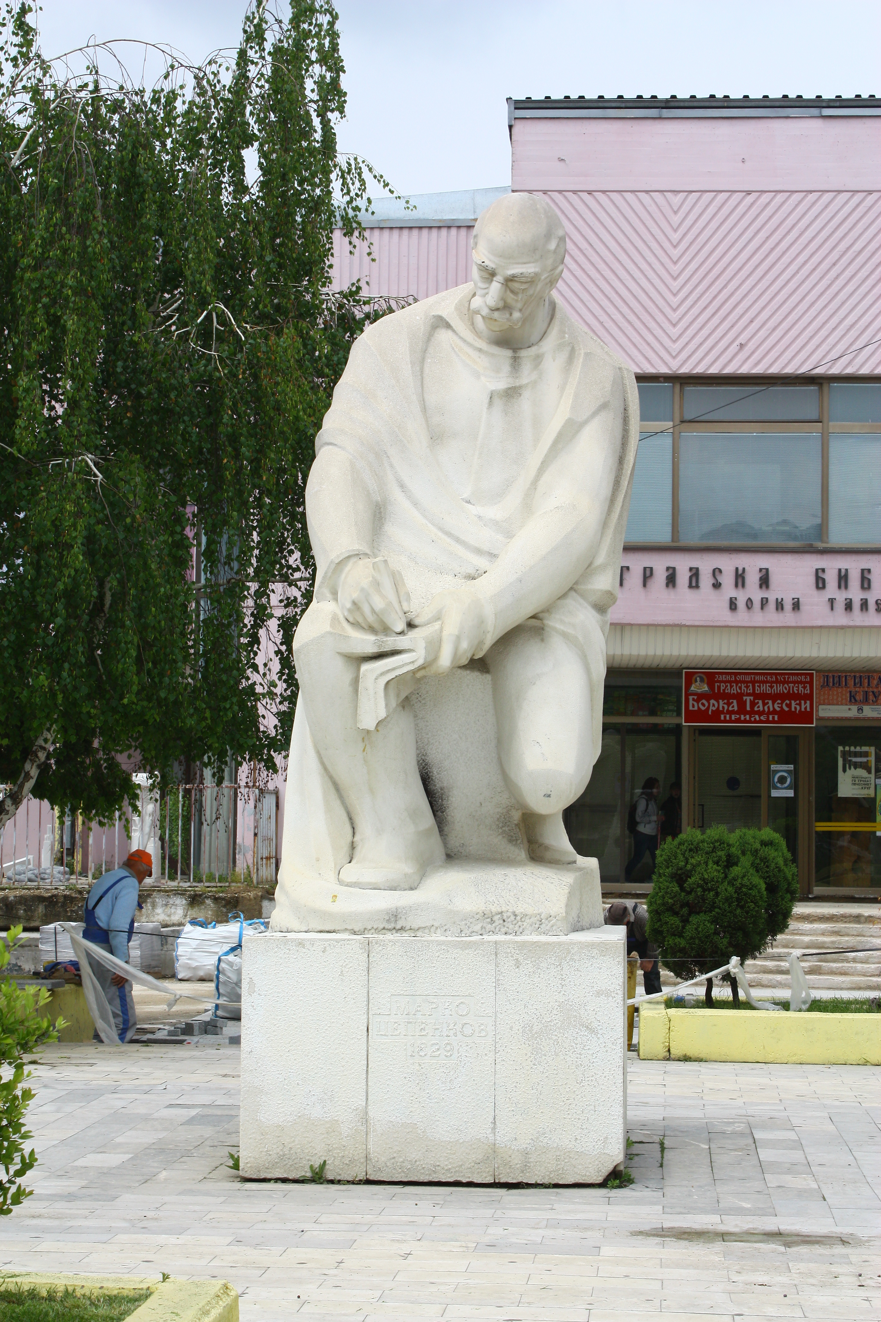 Marko Cepenkov monument in Prilep, Macedonia